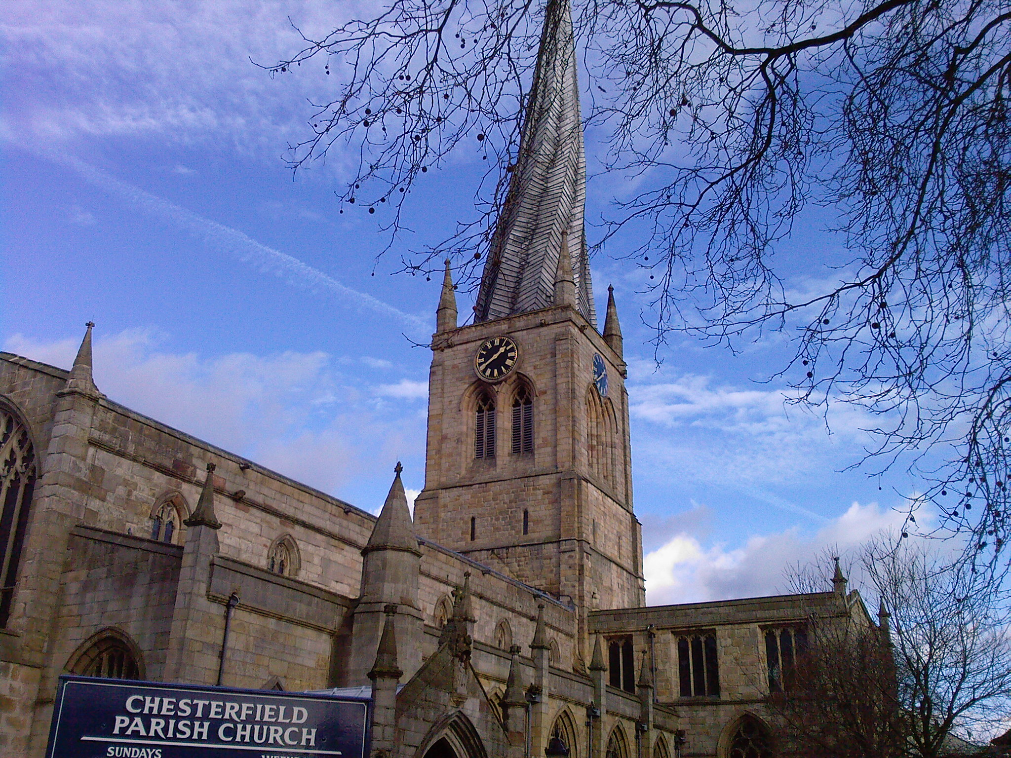 Chesterfield Parish Church 'Crooked Spire'